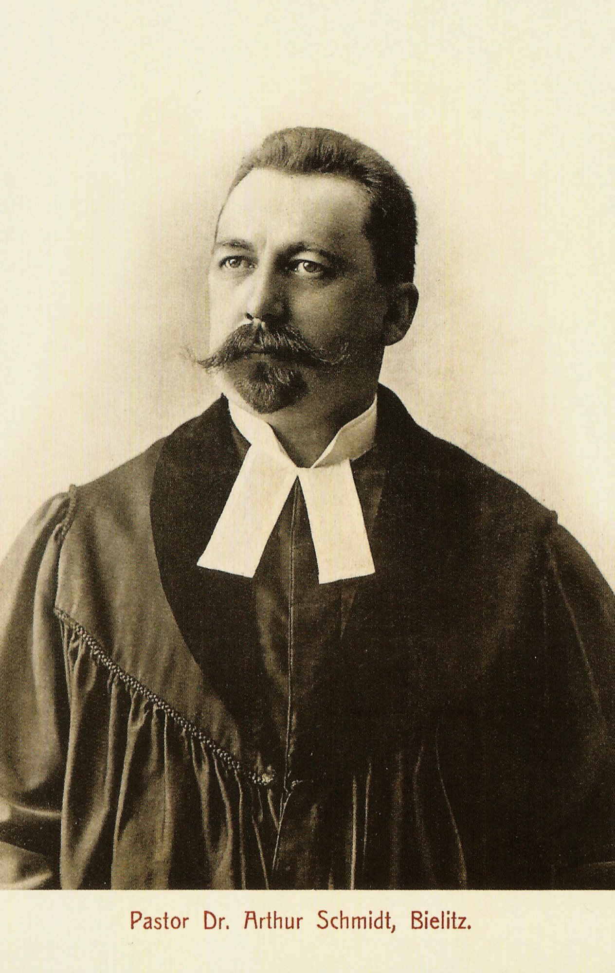 Ks. dr Arthur Schmidt (1866-1923), proboszcz w Bielsko (1894-1923)